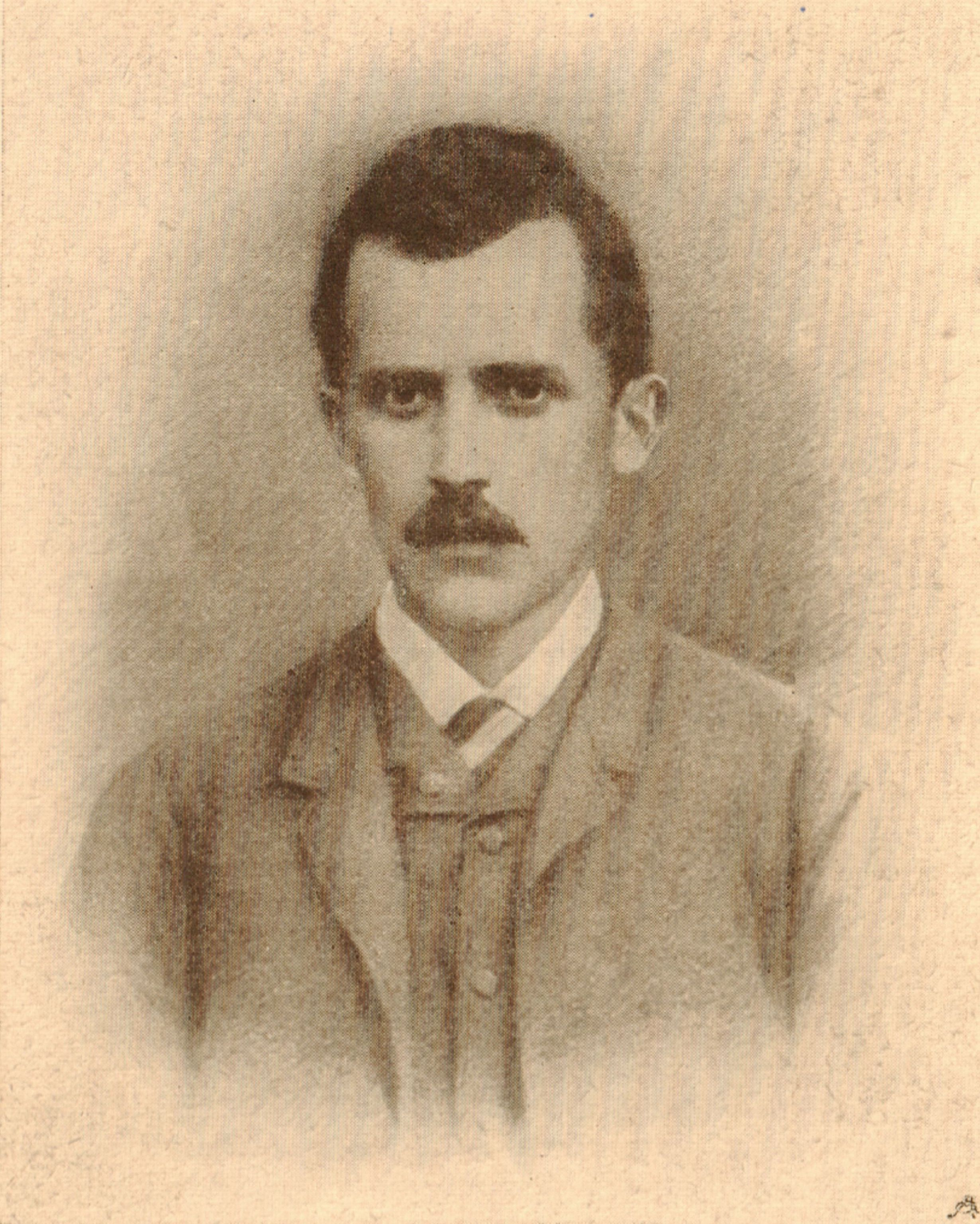 Pere Toshev